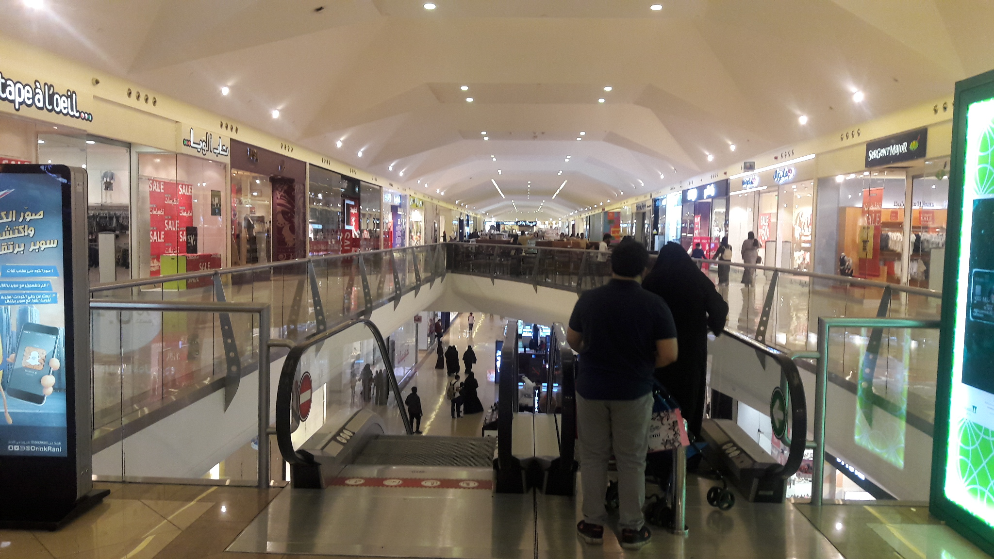 Aziz Mall, Jeddah